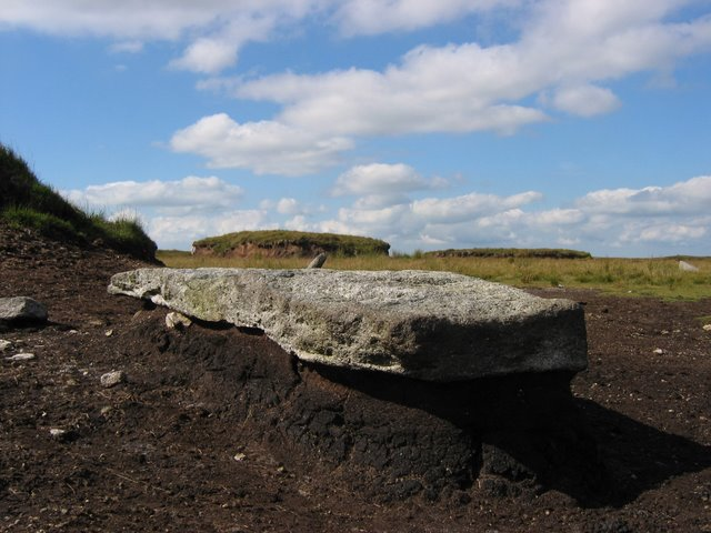 Granite "Erratic" Stone Row Here is the roof of Dartmoor, from the top you can see right all across Dartmoor. In the picture is a piece of granite probably Megalithic in age and is in a series of stones running along the top of this hill. This row is unique within dartmoor as it the only one with equal spacing within the row and above 600m, 100m above any other row in Dartmoor. The peat has washed away from around the stone but not from underneath, meaning the granite sticks out above the ground. Thanks to Murray for the website